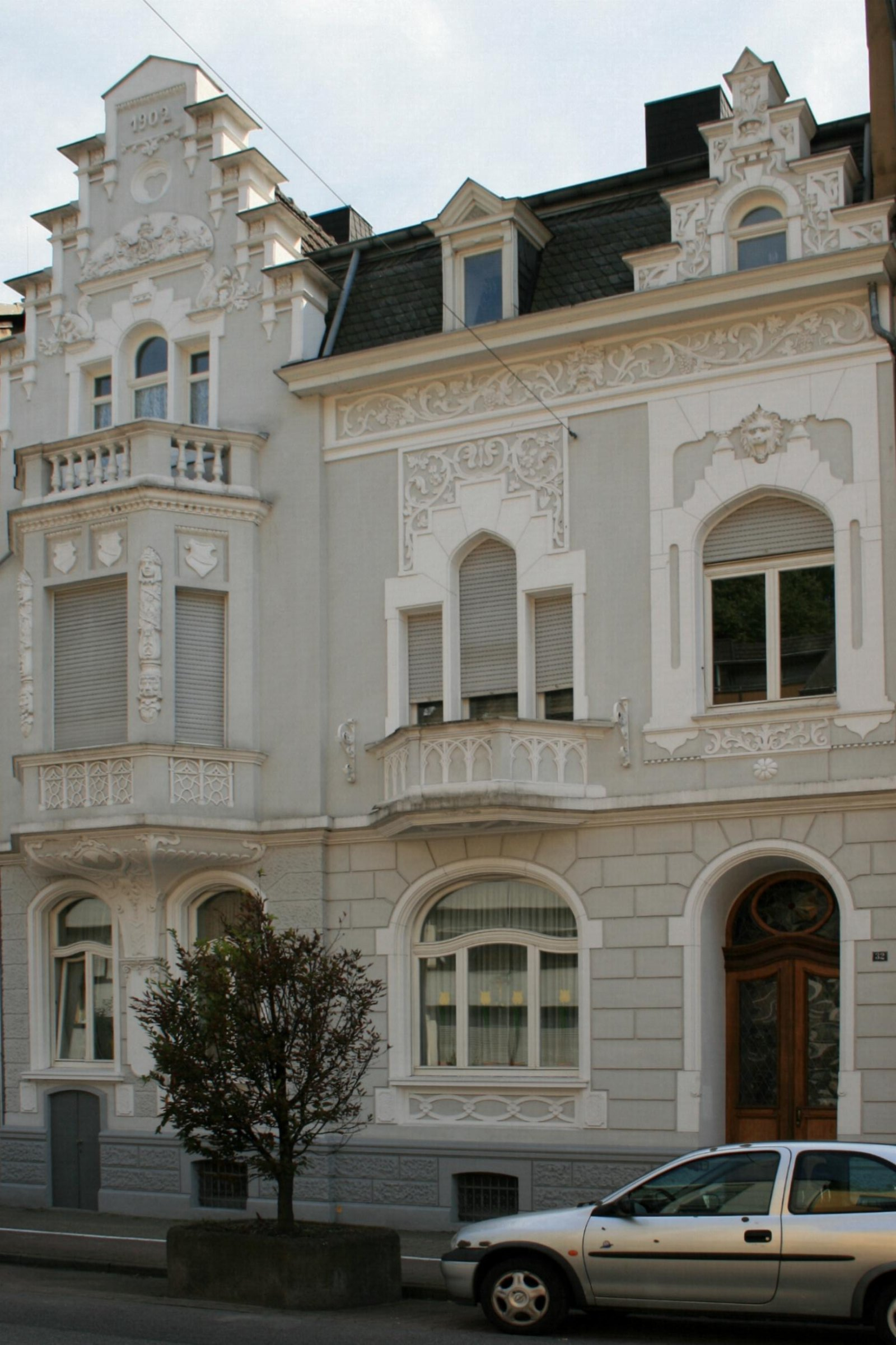 Cultural heritage monument No. L 003 in Mönchengladbach